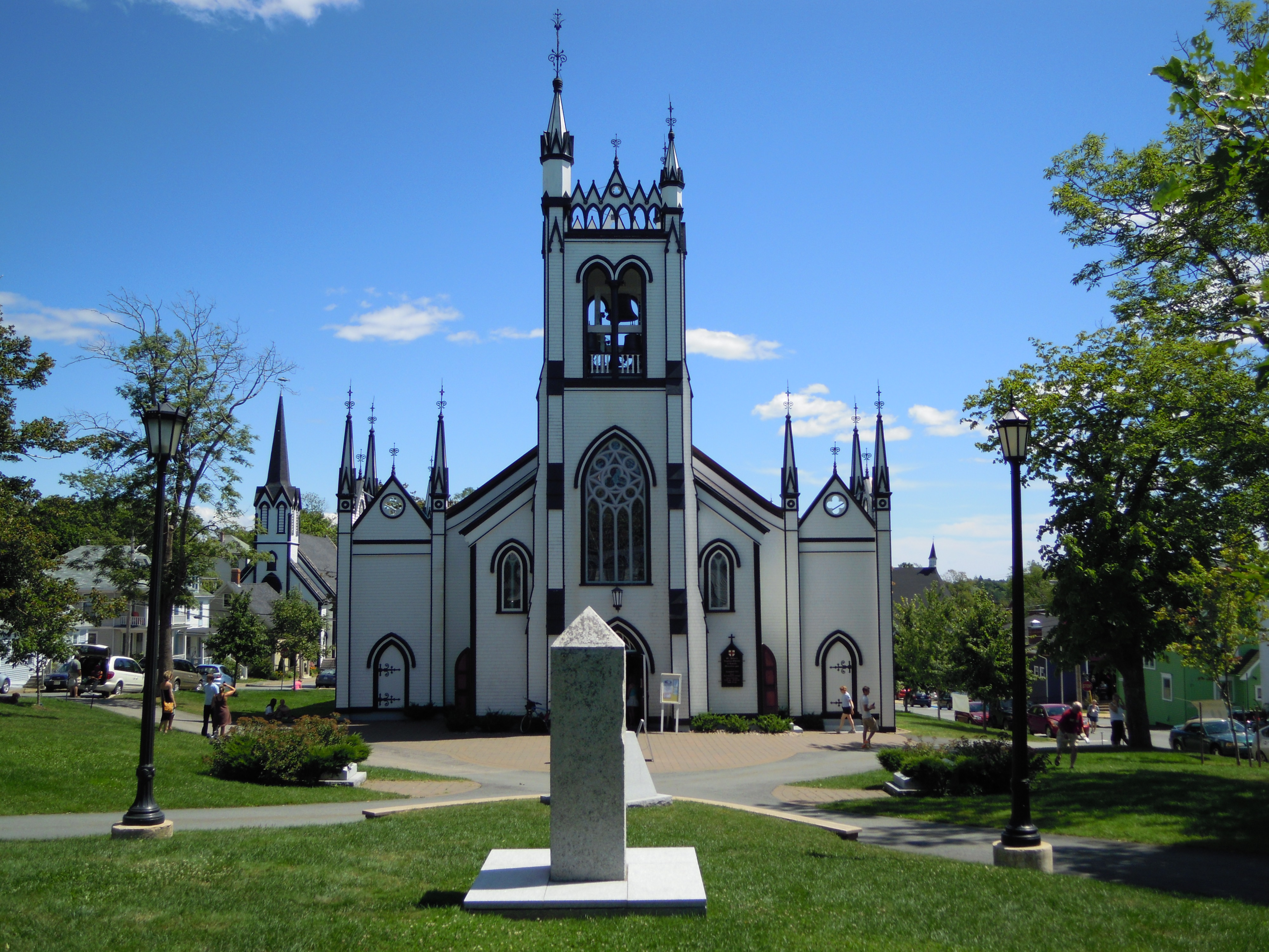 St. John's Anglican Church, Lunenburg, Nova Scotia, Canada. Built in 1763.